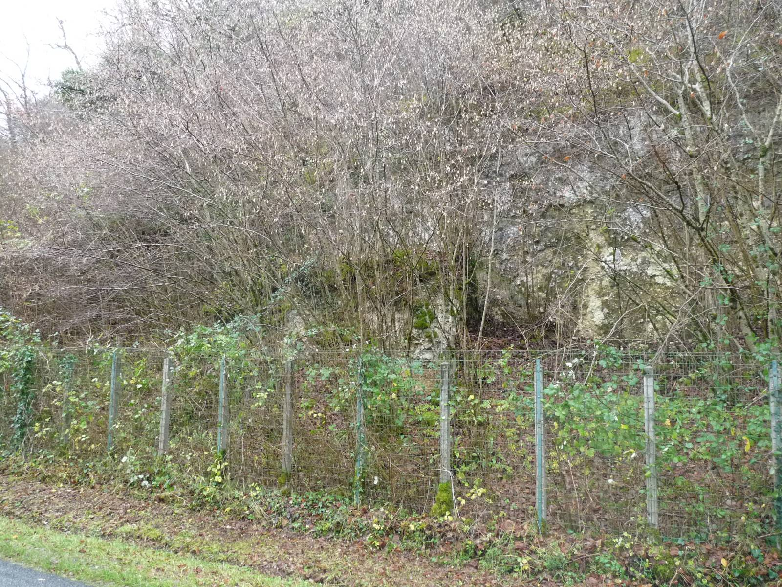 La Quina prehistorical site, Gardes-le-Pontaroux, Charente, SW France